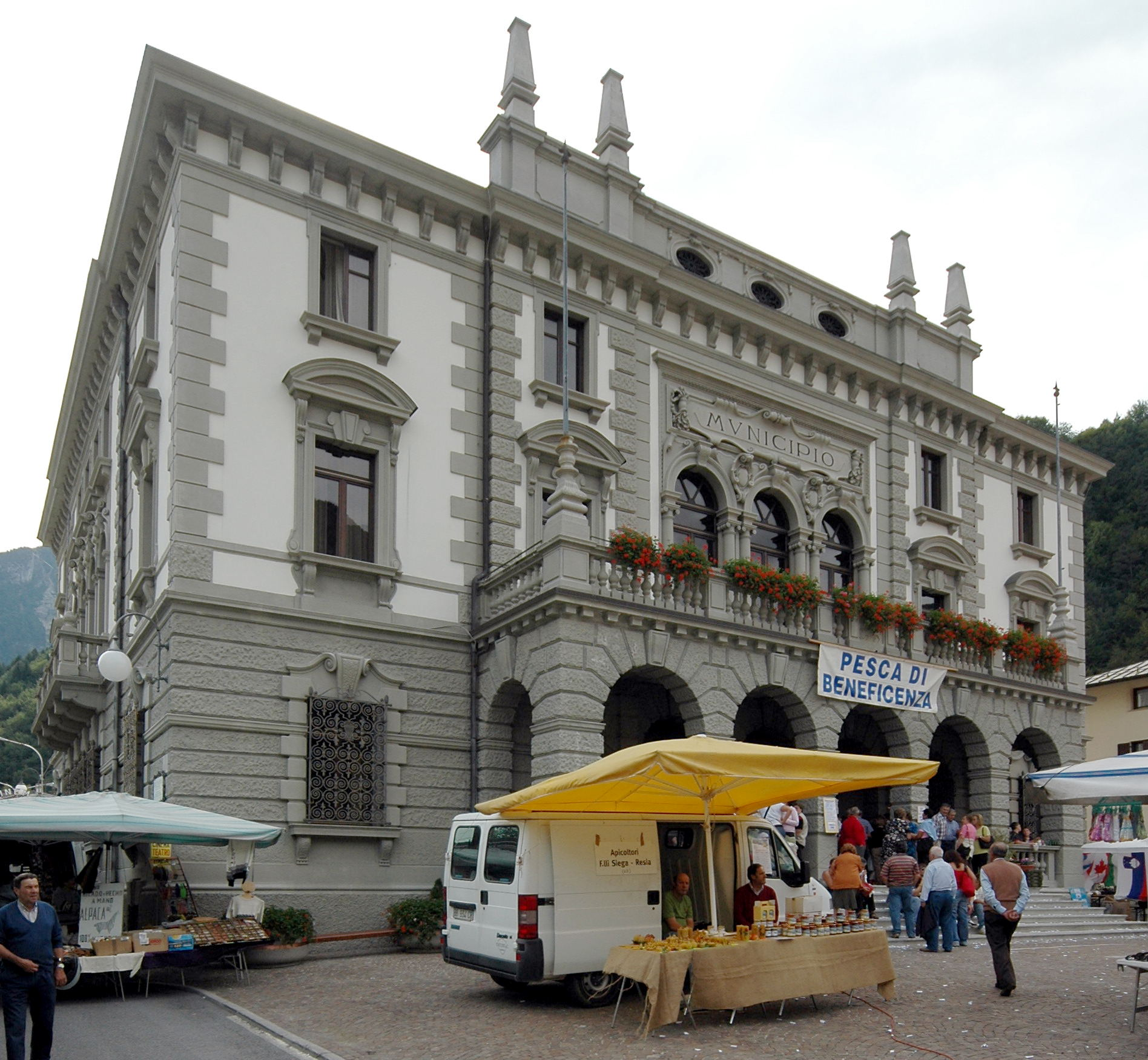 City hall and market in Pontebba, Friuli, Italy